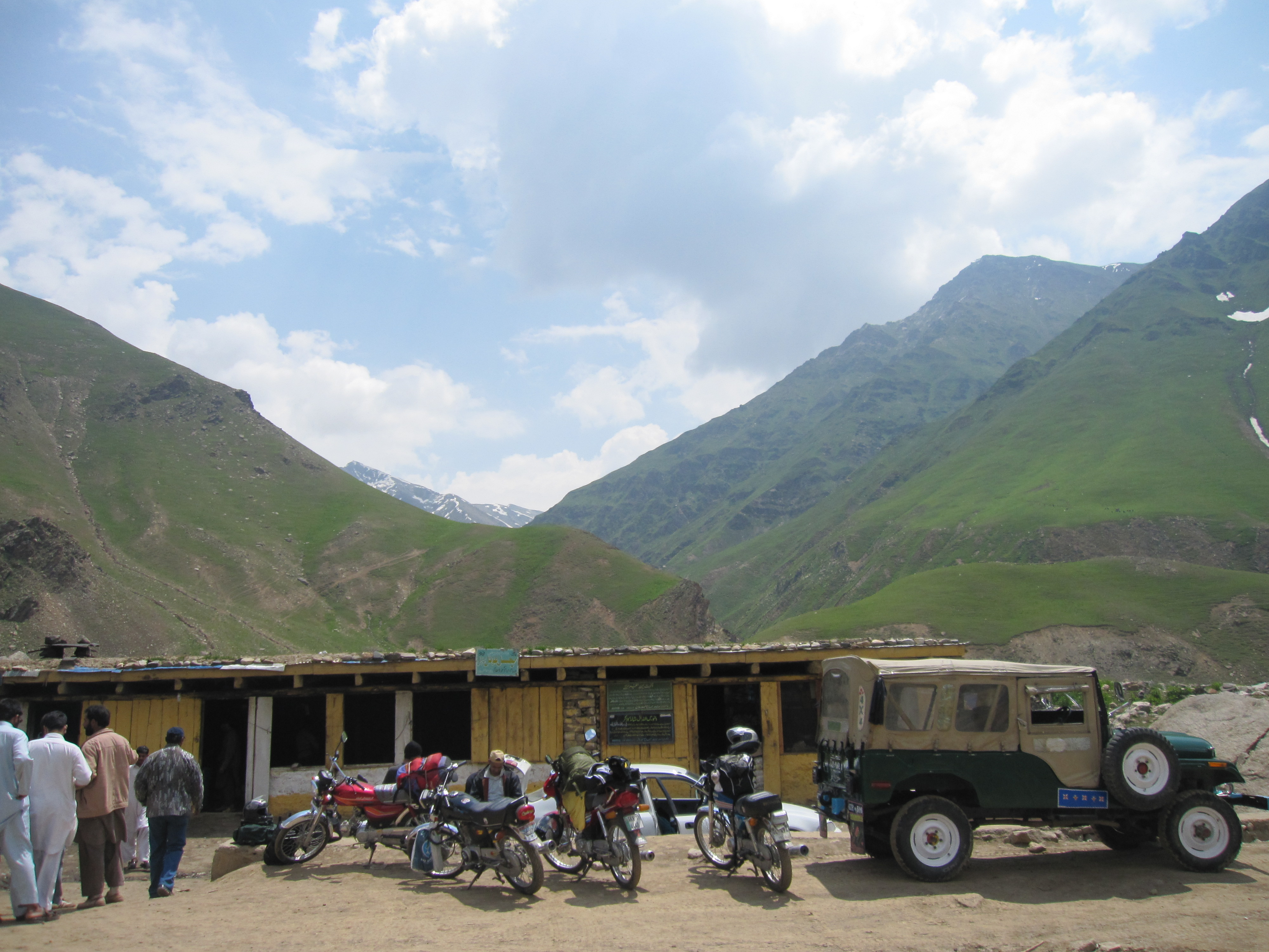 Dudipatsar Trail - Driver Hotel at Besar